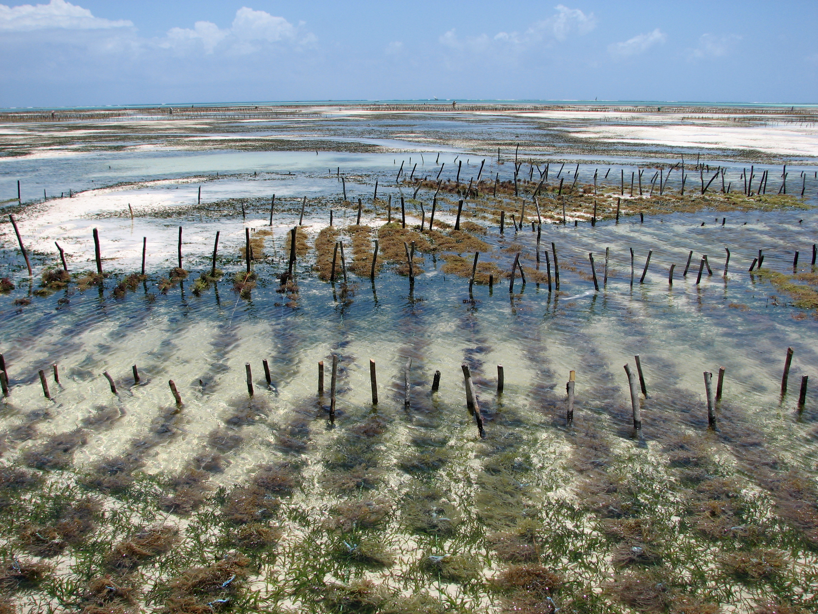 Aquacultures of red algae (Eucheuma sp.), Jambiani, Zanzibar, Tanzania